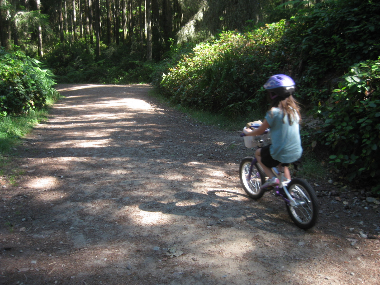 Girl biking in Banner Forest, Kitsap County Washington